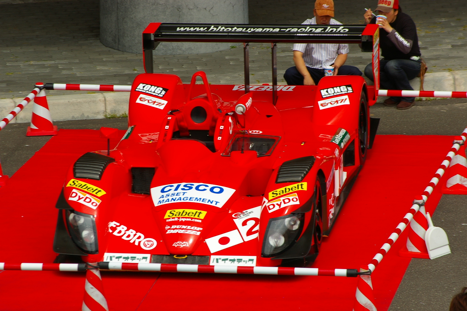 JLMC Zytek 05S, Northern Load Car festival in Wakkanai city.